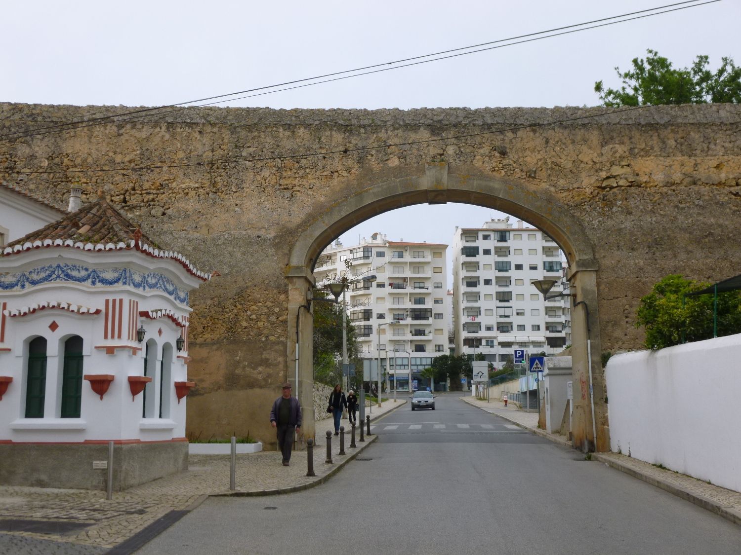 A view of a gateway through the city wall (Muralhas de Lagos) of Lagos on the Rua de São José within the city of Lagos, Algarve, Portugal.To the left of the gate is the old Water House